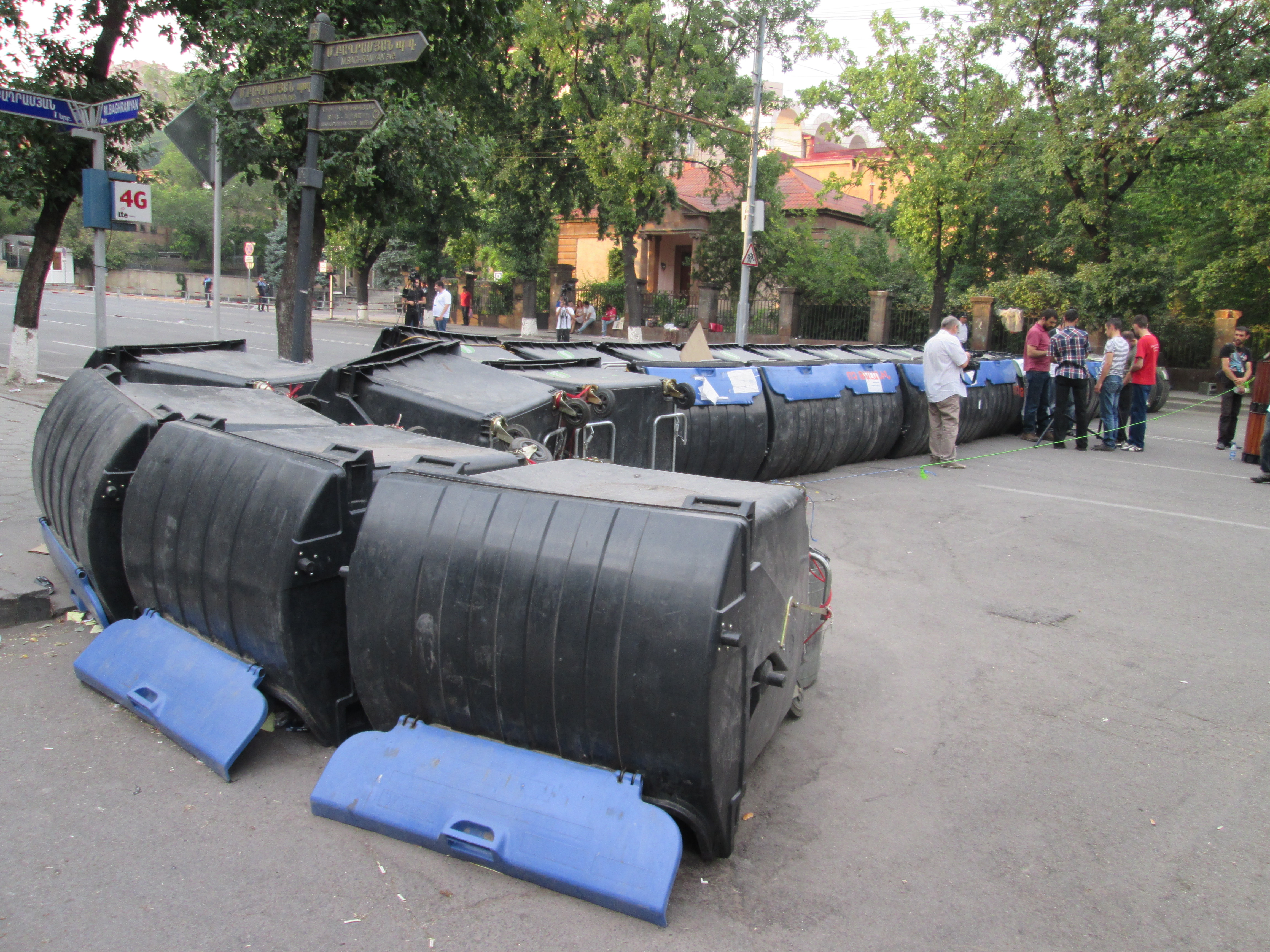 Barricade from trash cans in Yerevan